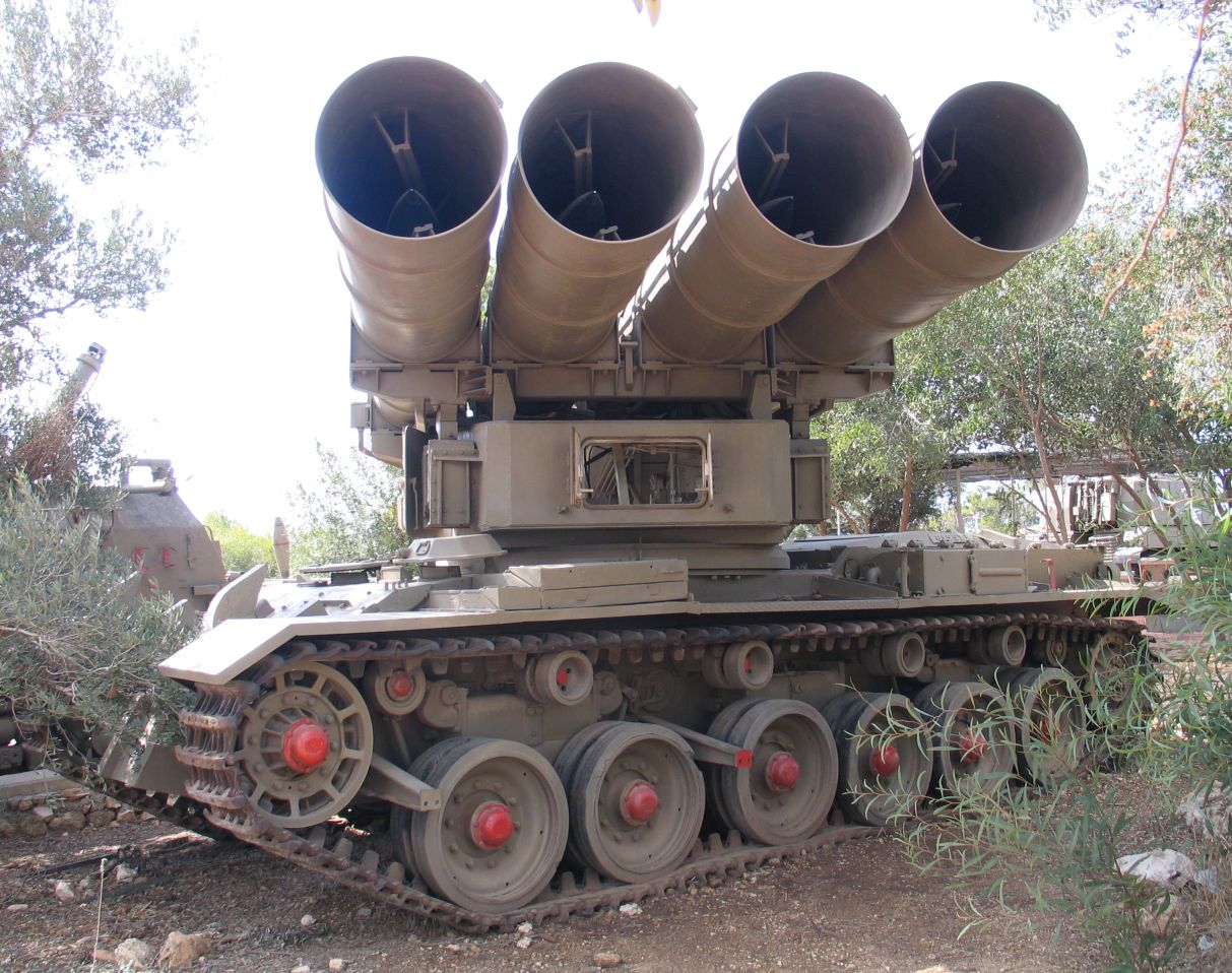 Description: Israeli MAR-290 290 mm ground-to-ground missile launcher on Centurion tank chassis in Beyt ha-Totchan, Zichron Yaakov, Israel. 2005. Source: Photo by me, User:Bukvoed.